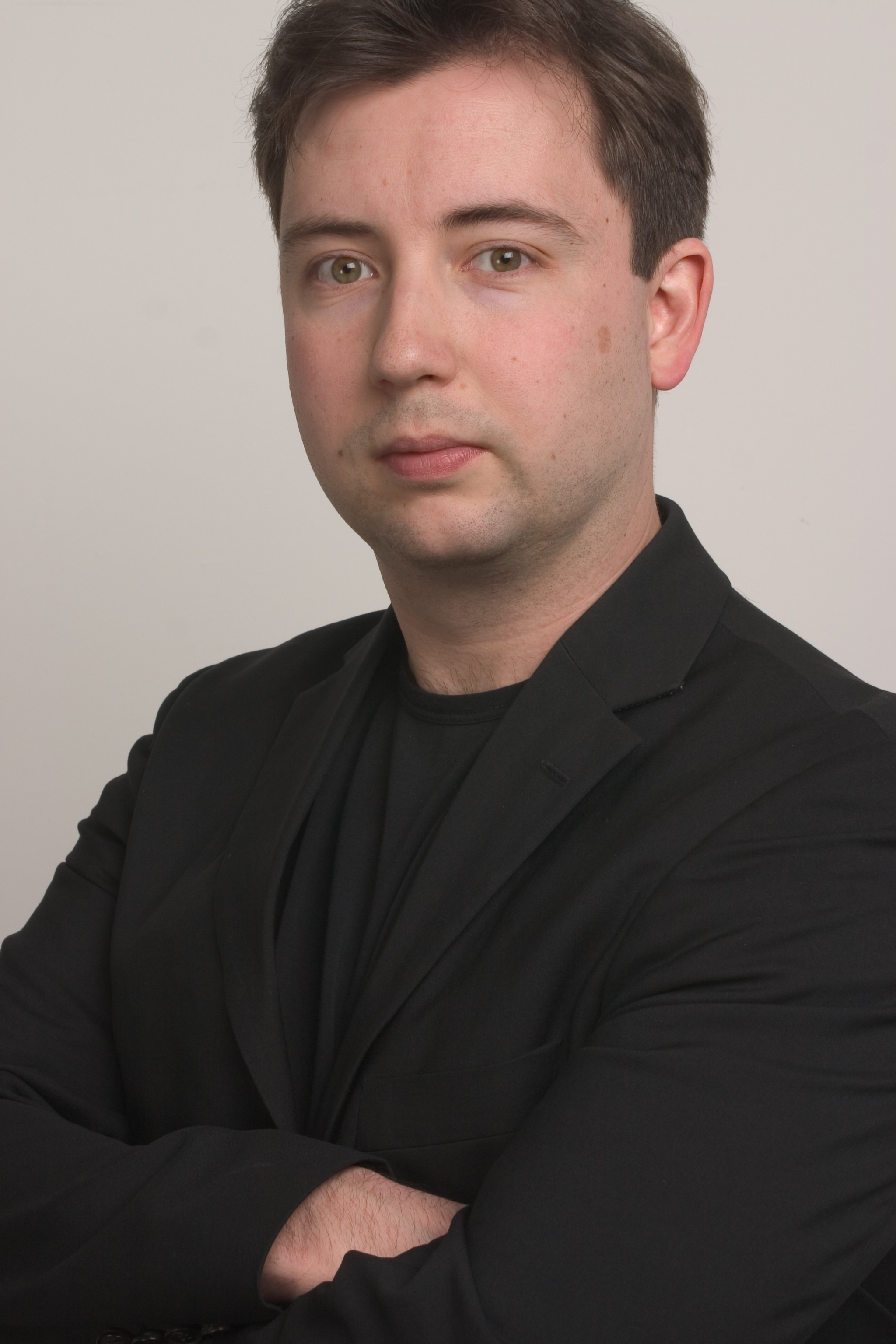 Roman Scharf